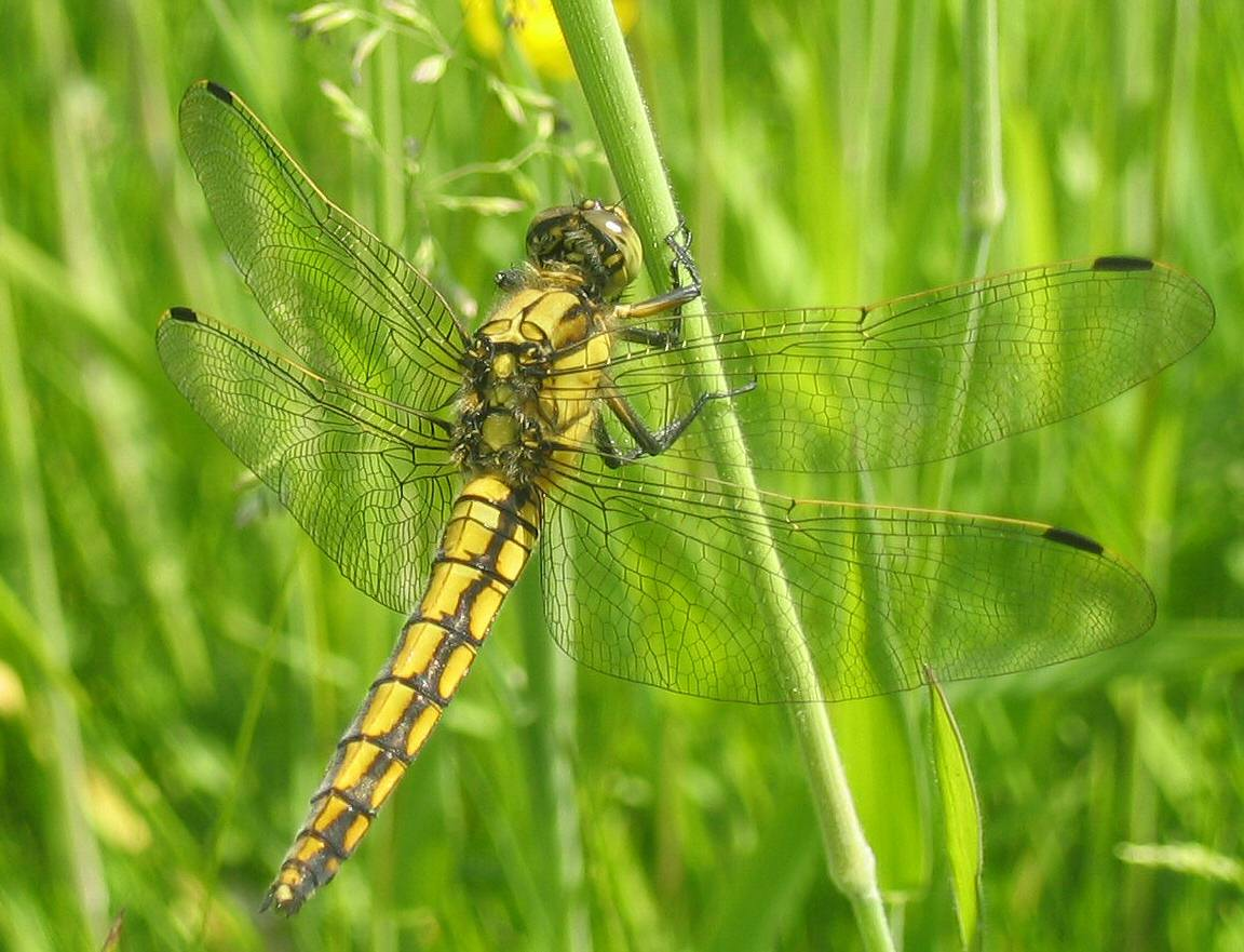 Black-tailed Skimmer (female) in Ghent, Belgium